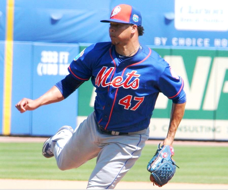 Hansel Robles pitching for the Mets during spring training 2016.